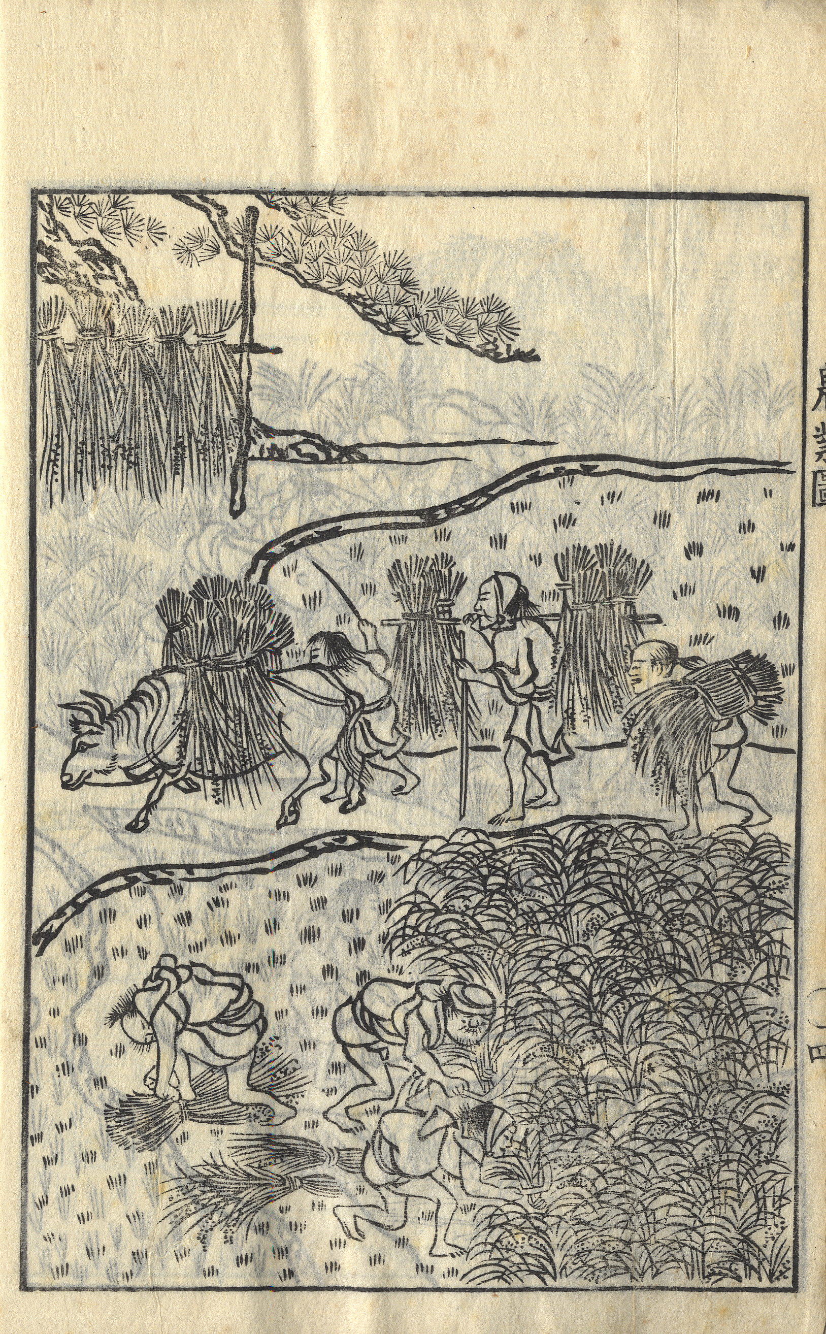 Rice harvest. In Miyazaki Yasusadas Nōgyō zensho (Compendium on agriculture), Vol. 1, second edition 1782).